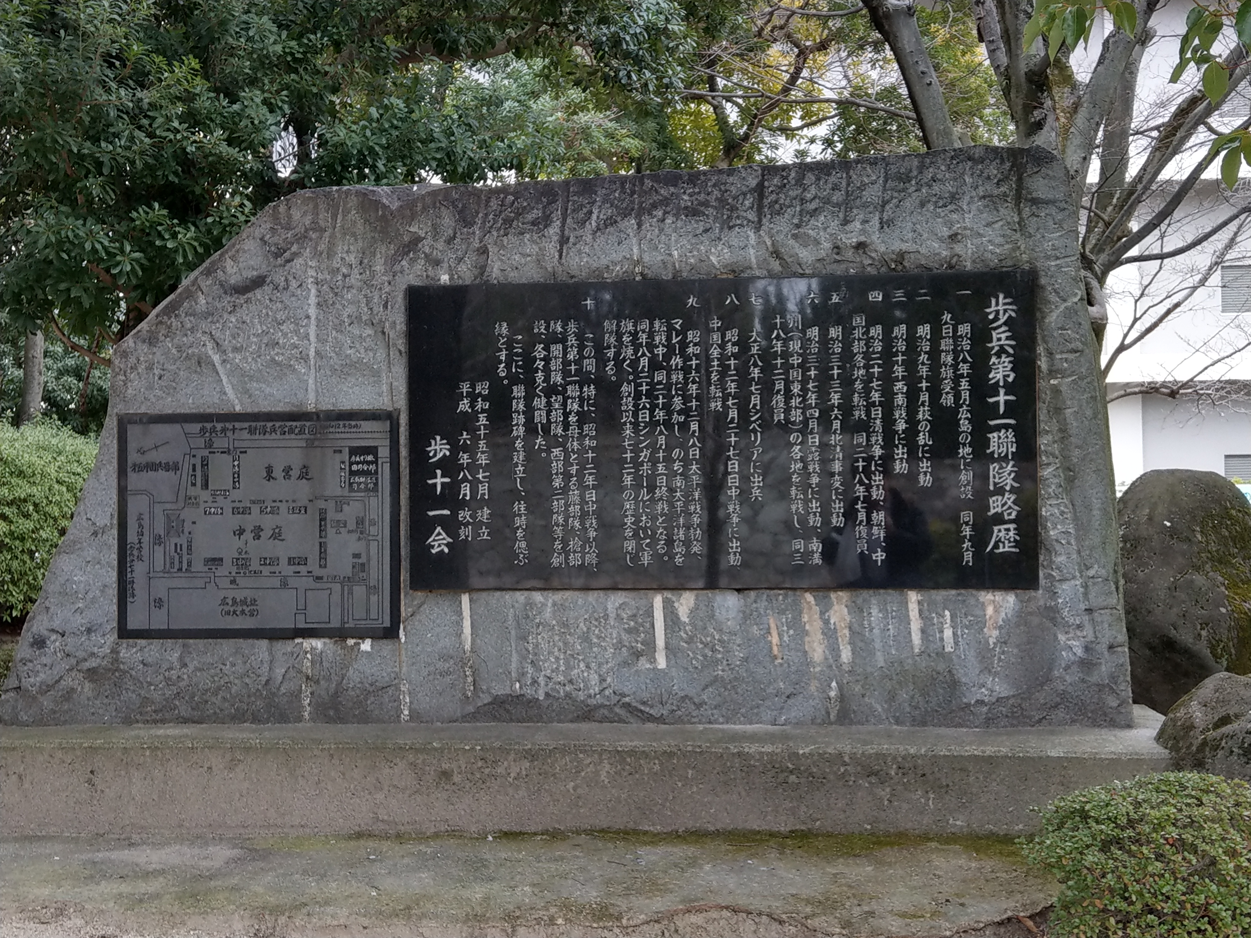 In Hiroshima city, Japan